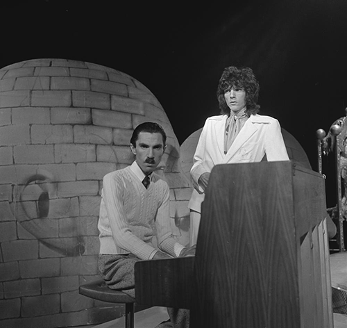 Sparks in AVRO's TopPop (Dutch television show) in 1974